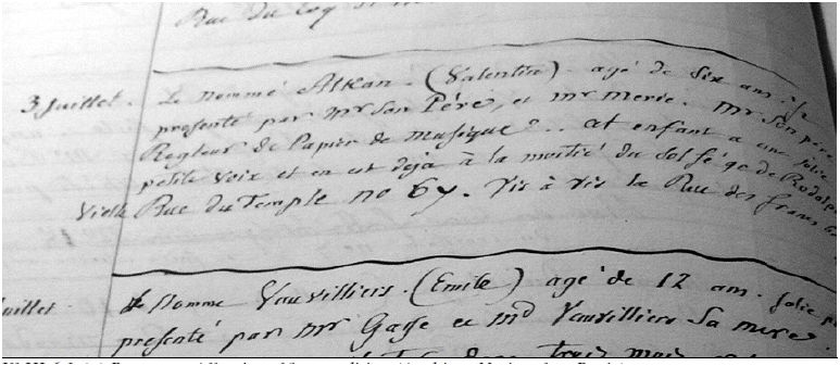 Report on the 1819 solfege audition of Charles-Valentin Alkan at the Paris Conservatoire